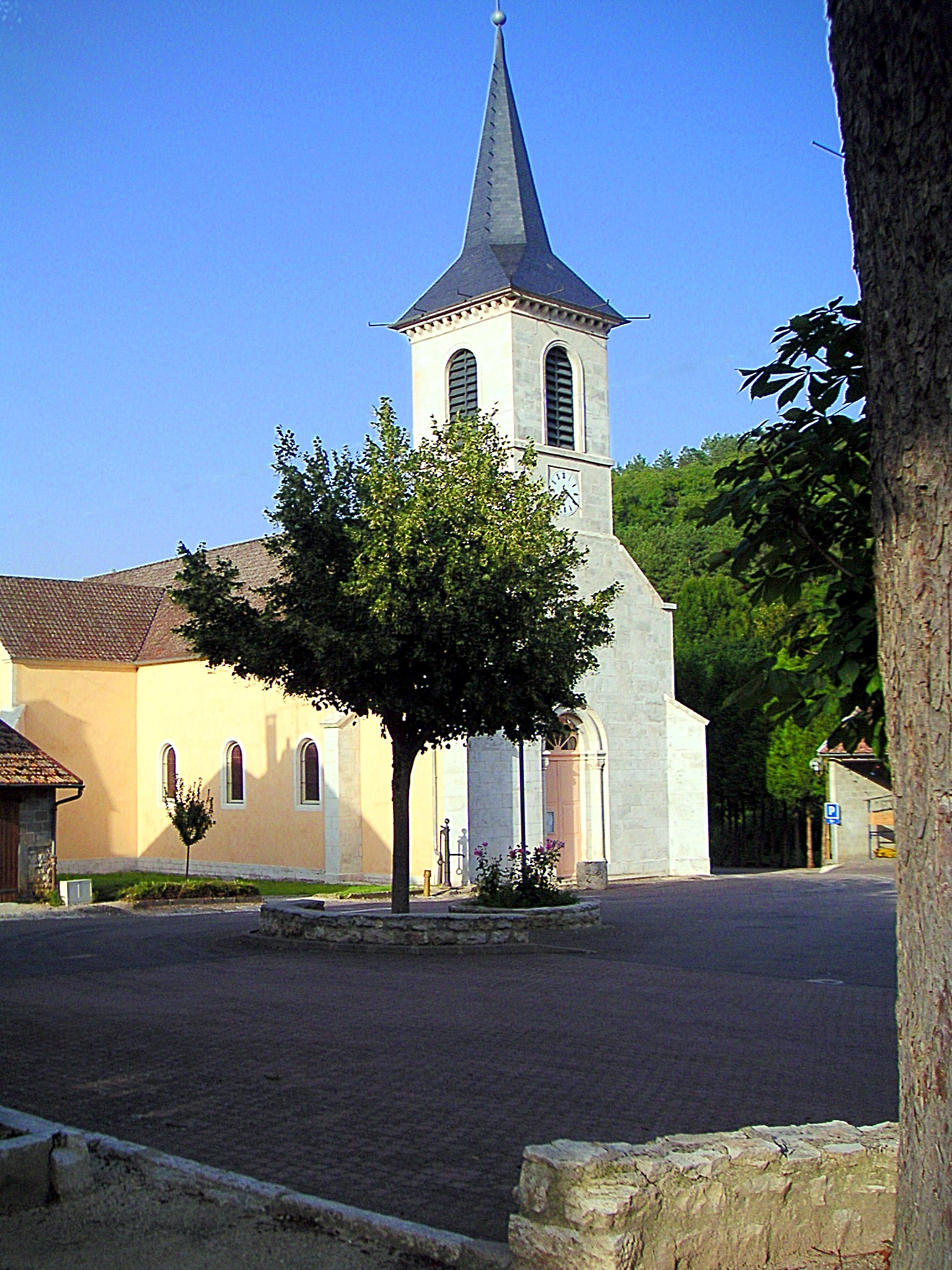 The church in Veuvey-sur-Ouche